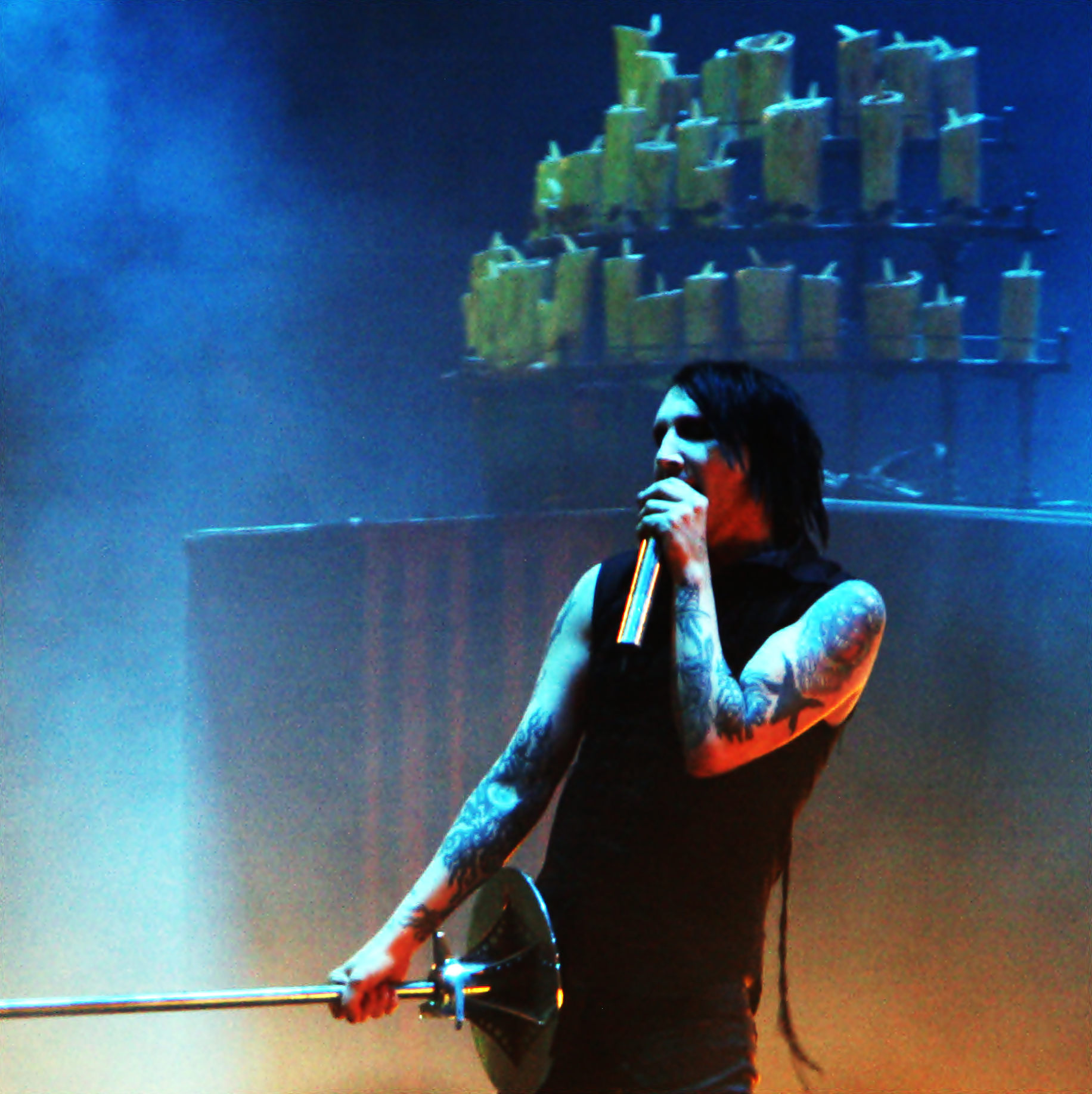 Marilyn Manson at the Eurockéennes of 2007